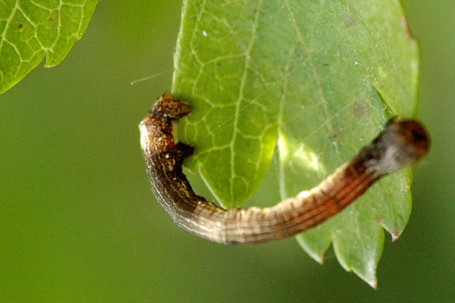 Picture taken in Commanster, Belgian High Ardennes . Species: Ourapteryx sambucaria caterpillar